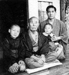 The Koizumi’s: from left, Junichirō Koizumi, Matajirō (grandfather), Masaya (brother) and Junya.